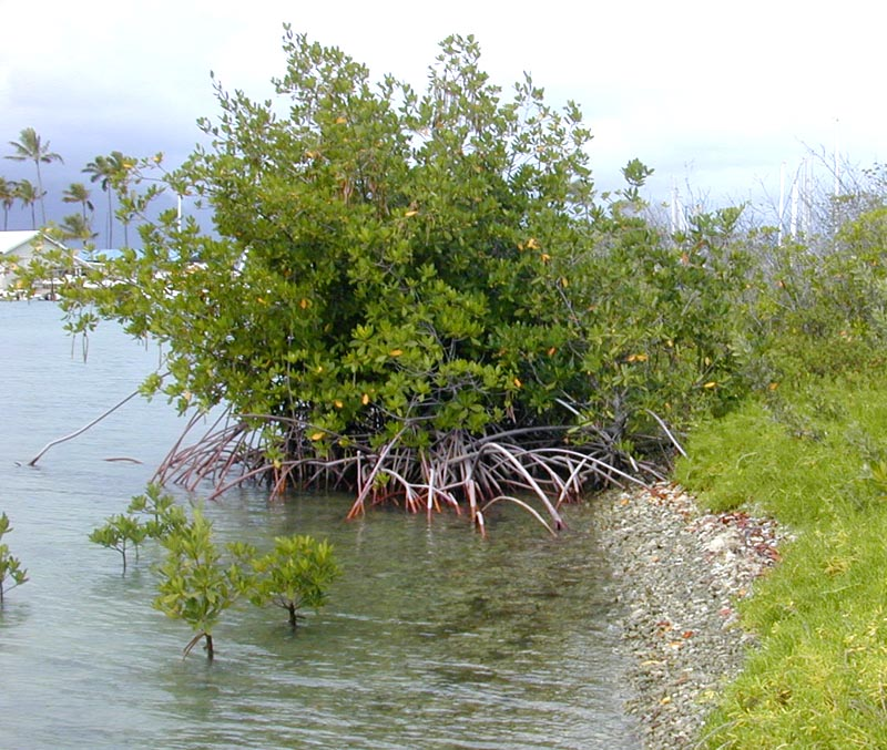 Young Rhizophora mangle L. tree growing on a beach in Kāne'ohe Bay, Hawai'i; photographed by Eric Guinther.